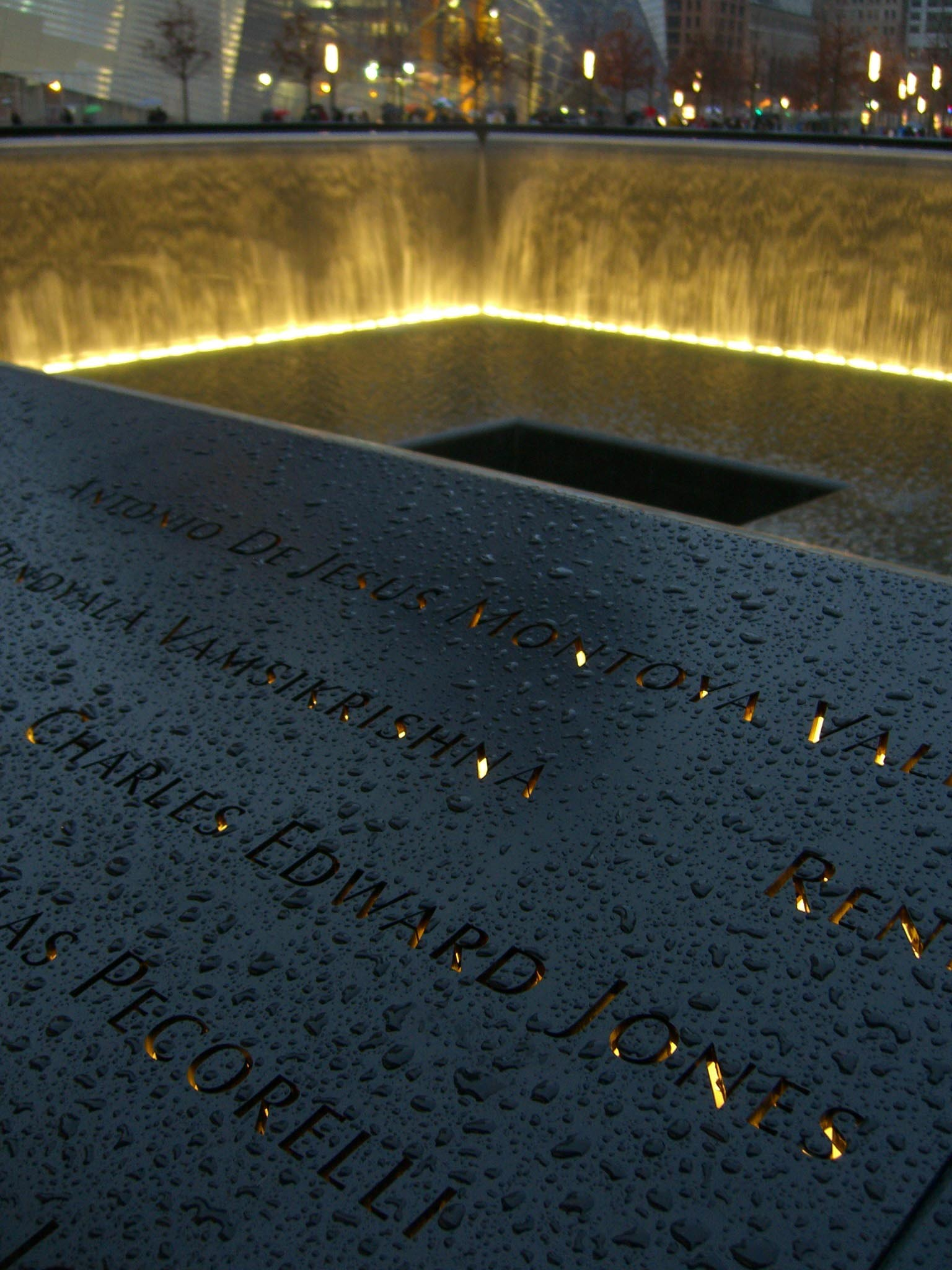 The name of Charles Edward Jones is seen with those of other 9/11 victims from American Airlines Flight 11, inscribed on bronze panel N-74 of the North Pool of the National September 11 Memorial in Manhattan, as seen on December 6, 2011. This photo was created by Luigi Novi. If you have any questions, you can contact me by sending me an email or User talk:Nightscream